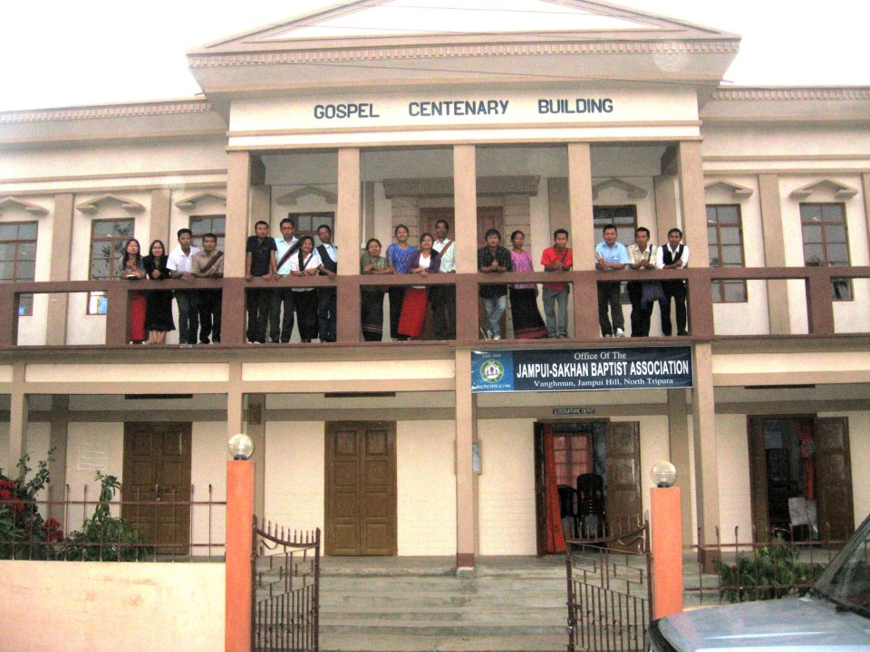 JSBA Office building at Vanghmun, Jampui hill